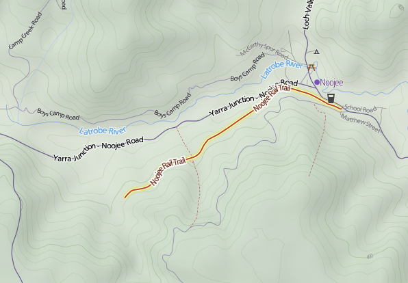 Map of Noojee Trestle Bridge Rail Trail Cartography by Steve Bennett, data by OpenStreetMap contributors.